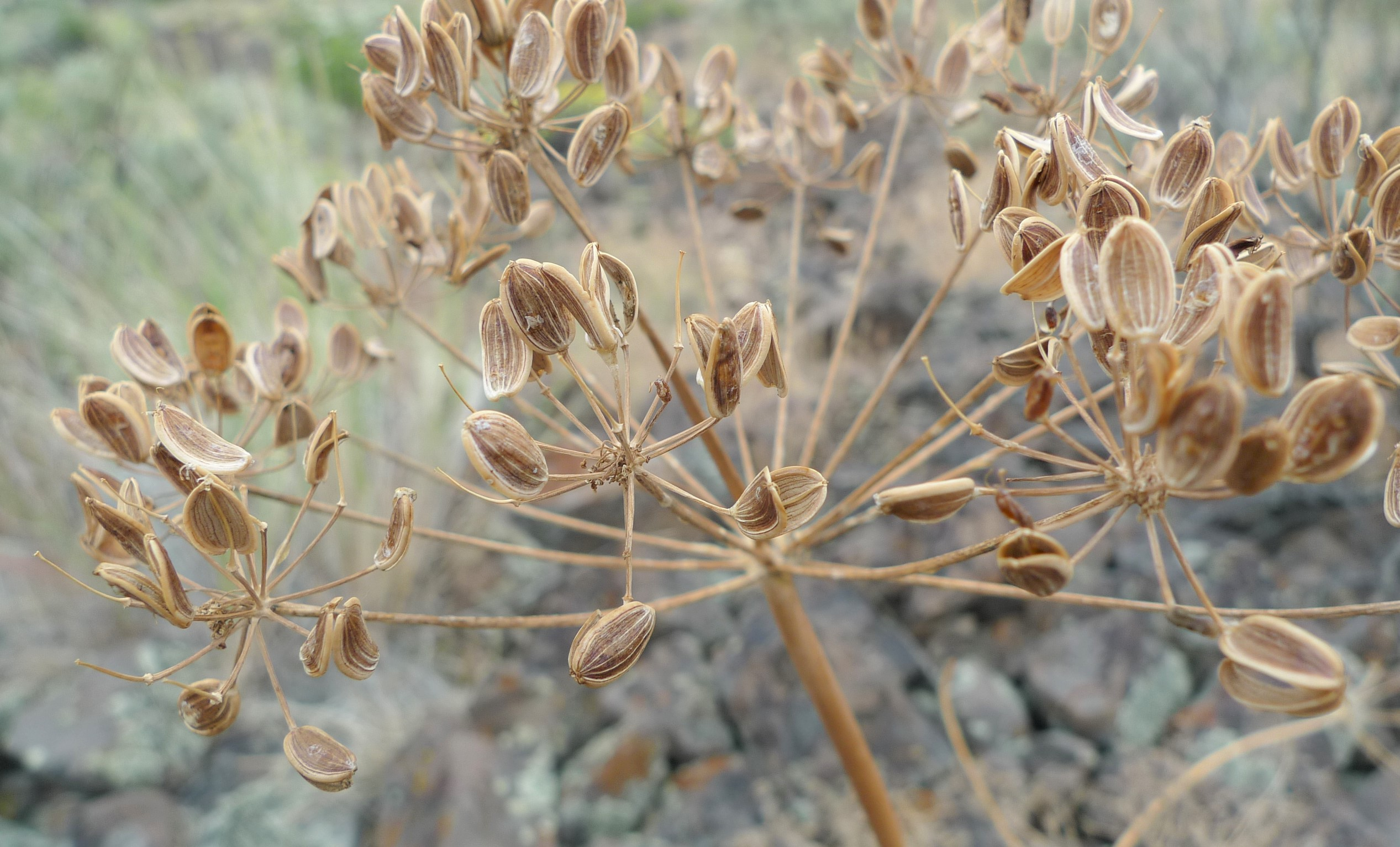 Lomatium dissectum var. multifidum mature seeds at Colockum Wildlife Area, Chelan County Washington